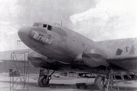 C-47 "The Nez Perce", 43-16229 converted in the field to glider ("CG-47" or "XCG-17") configuration.